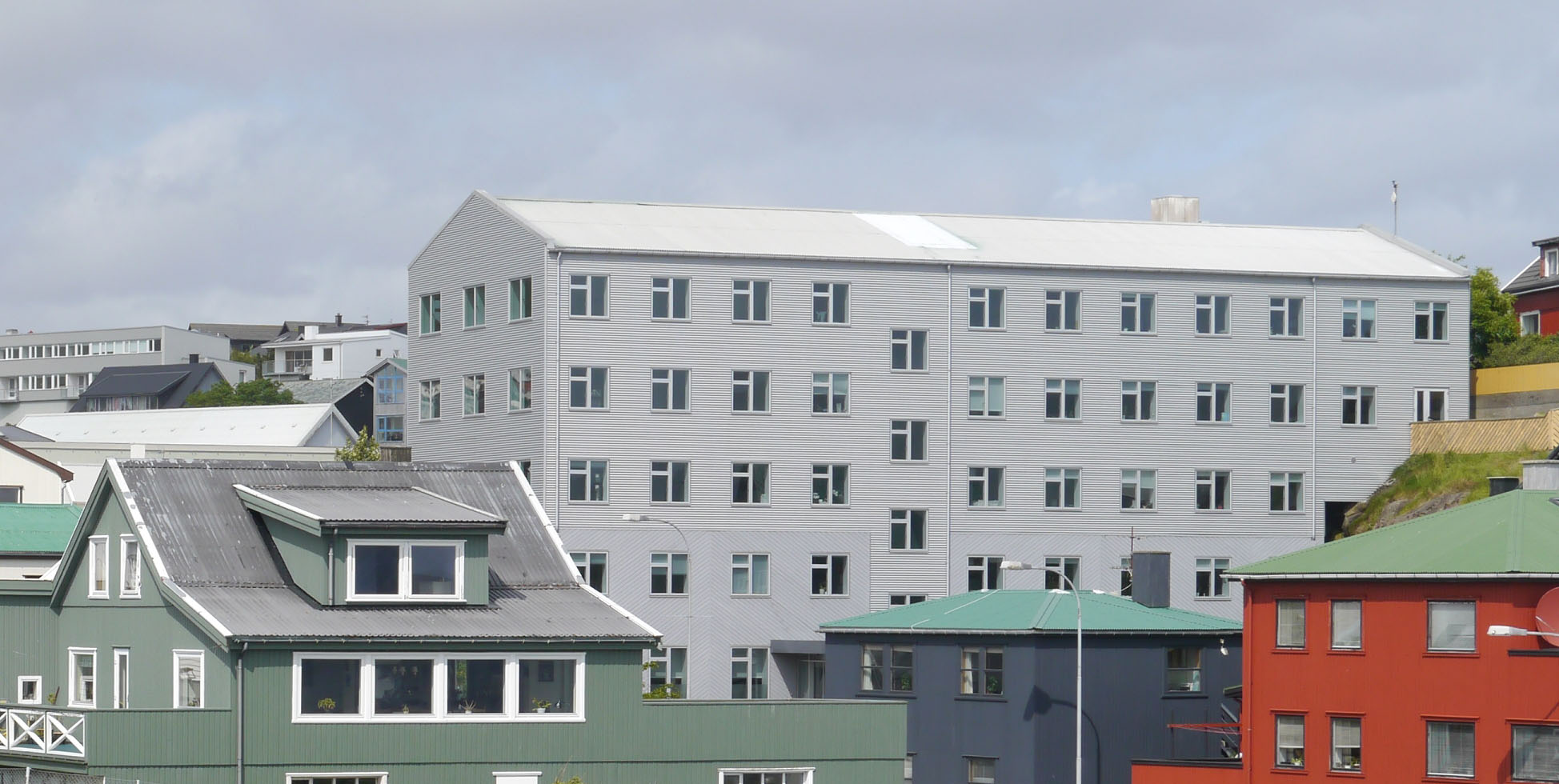 The building of the Department of Nursing of the University of the Faroe Islands.